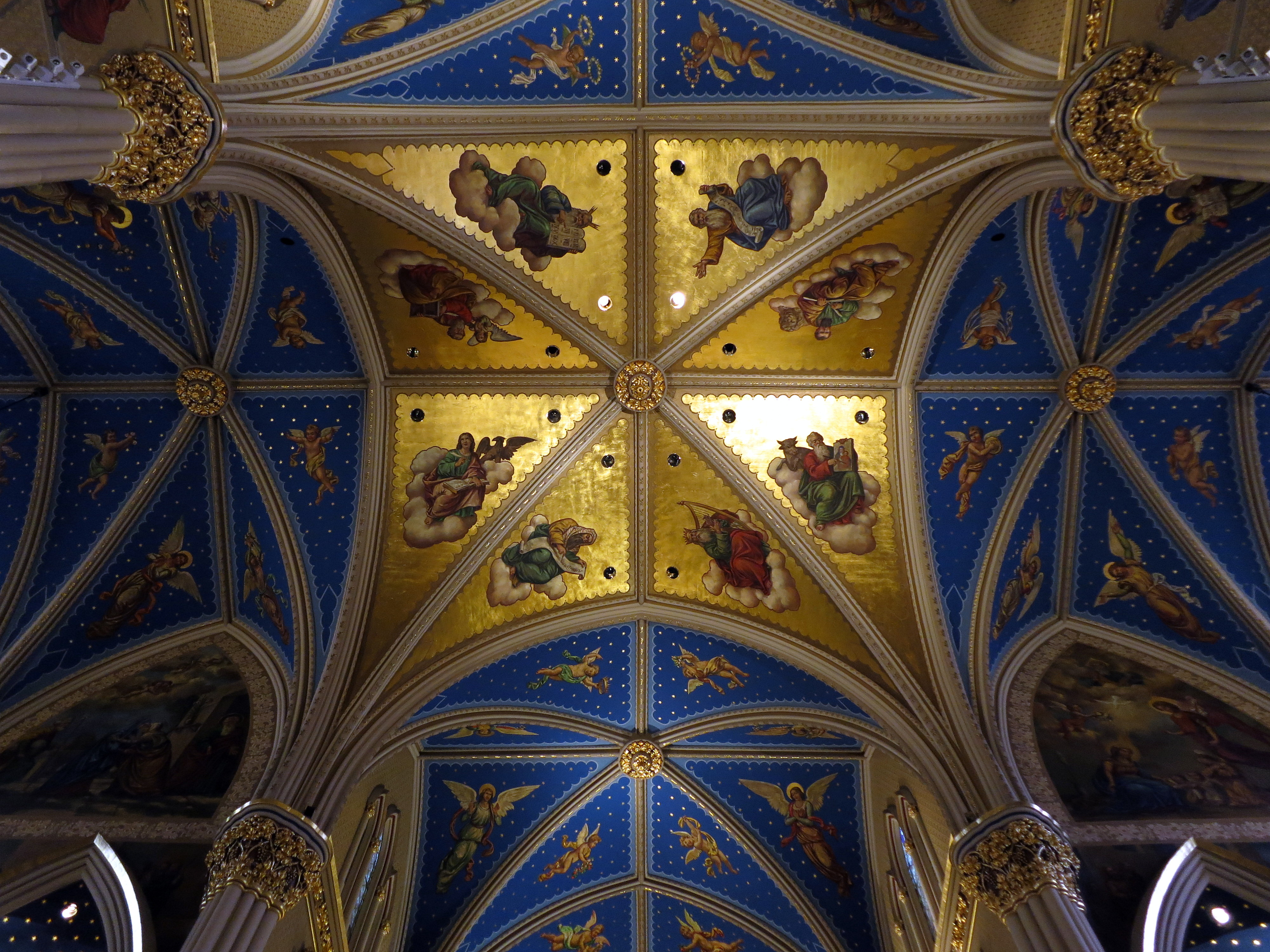 Basilica of the Sacred Heart (Notre Dame, Indiana) - interior, vault at the crossing, four Old Testament prophets and the four evangelists